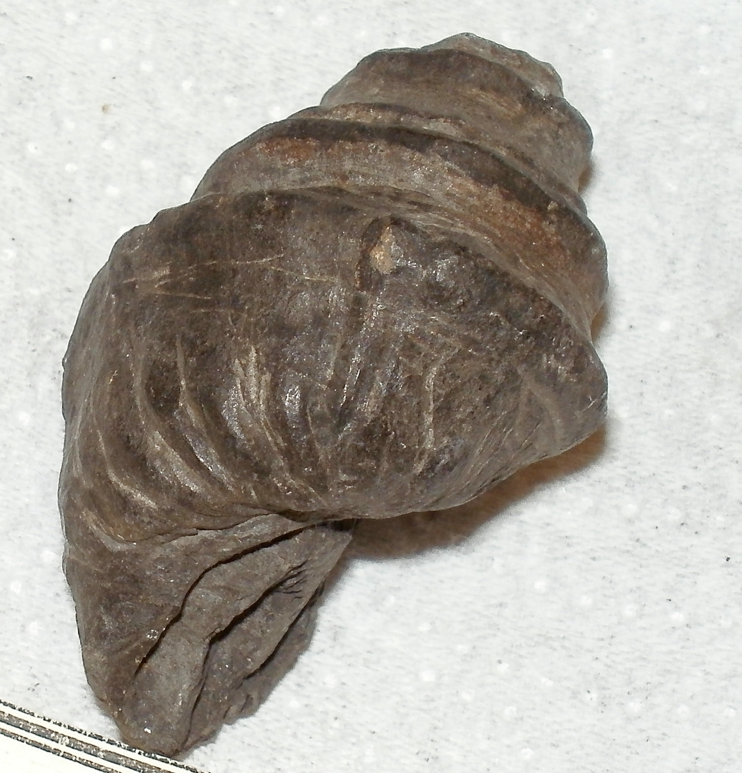 fossil Ampullaria bicarinata from Eastern Serbia